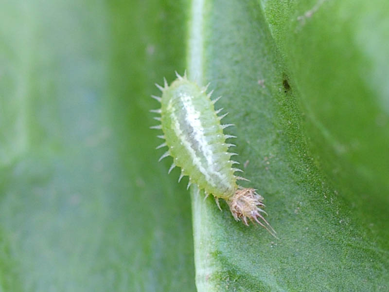 Juvenile of Cassida nebulosa (Beet tortoise beetle) on the leaf of beet. Larva Photo by Fk in Japan, 2006.